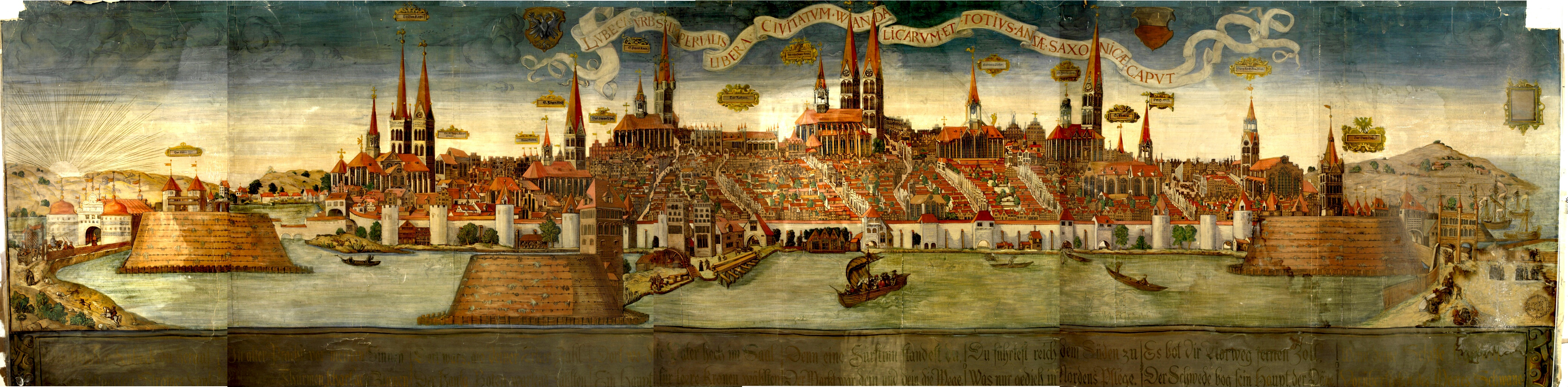 Panoramic view of the Free Imperial City of Lübeck